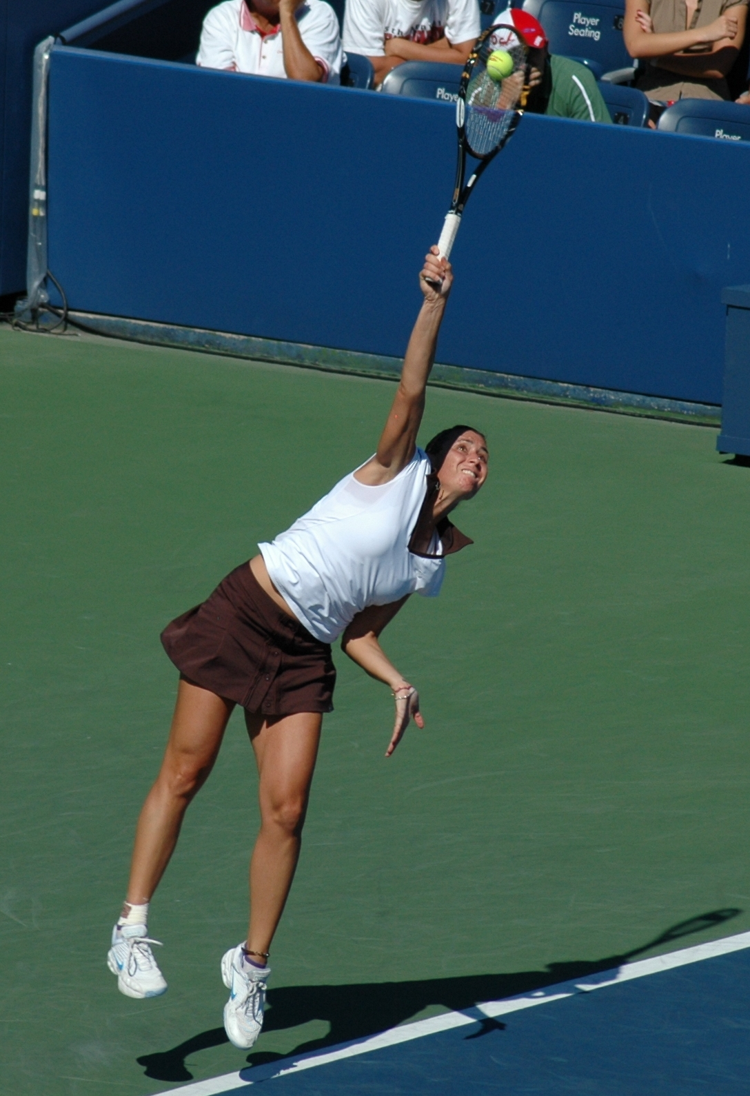 Flavia Pennetta at the 2008 US Open